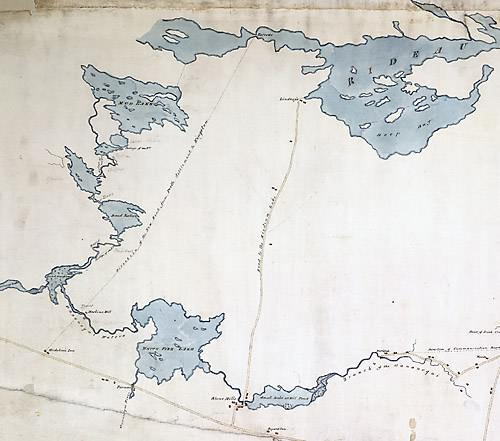 Joshua Jebb from Derbyshire. Sir Joshua Jebb ( 8 May 1793 ? 26 June 1863 ) was a military engineer and the British Surveyor-General of convict prisons. Here we see his suvey for the Rideau Canal in Canada ... Jebb was also involved in designing prisons and related buildings, including: Broadmoor Hospital , a secure mental hospital in Crowthorne in Berkshire.